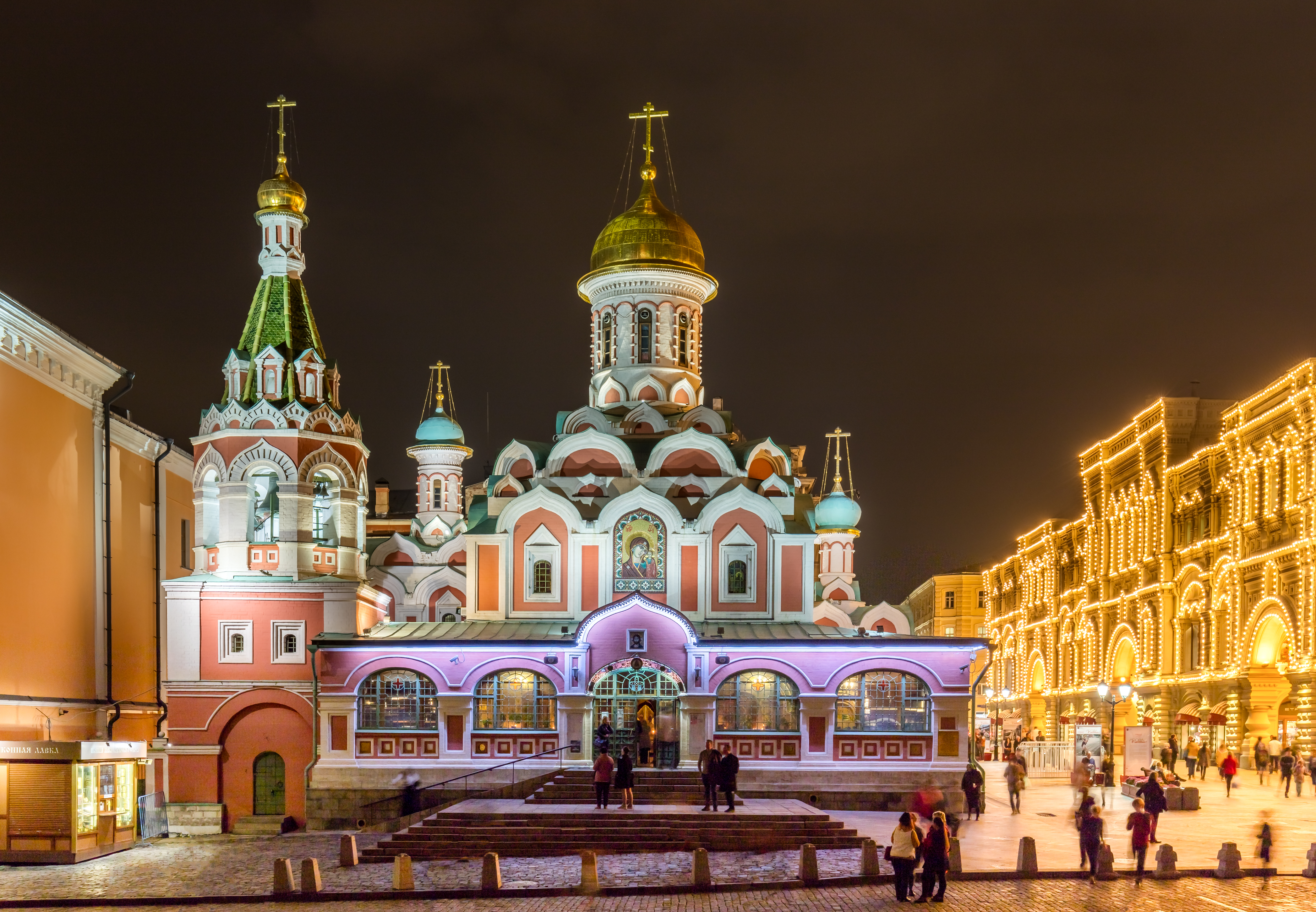 Cathedral of Our Lady of Kazan, Moscow, Russia